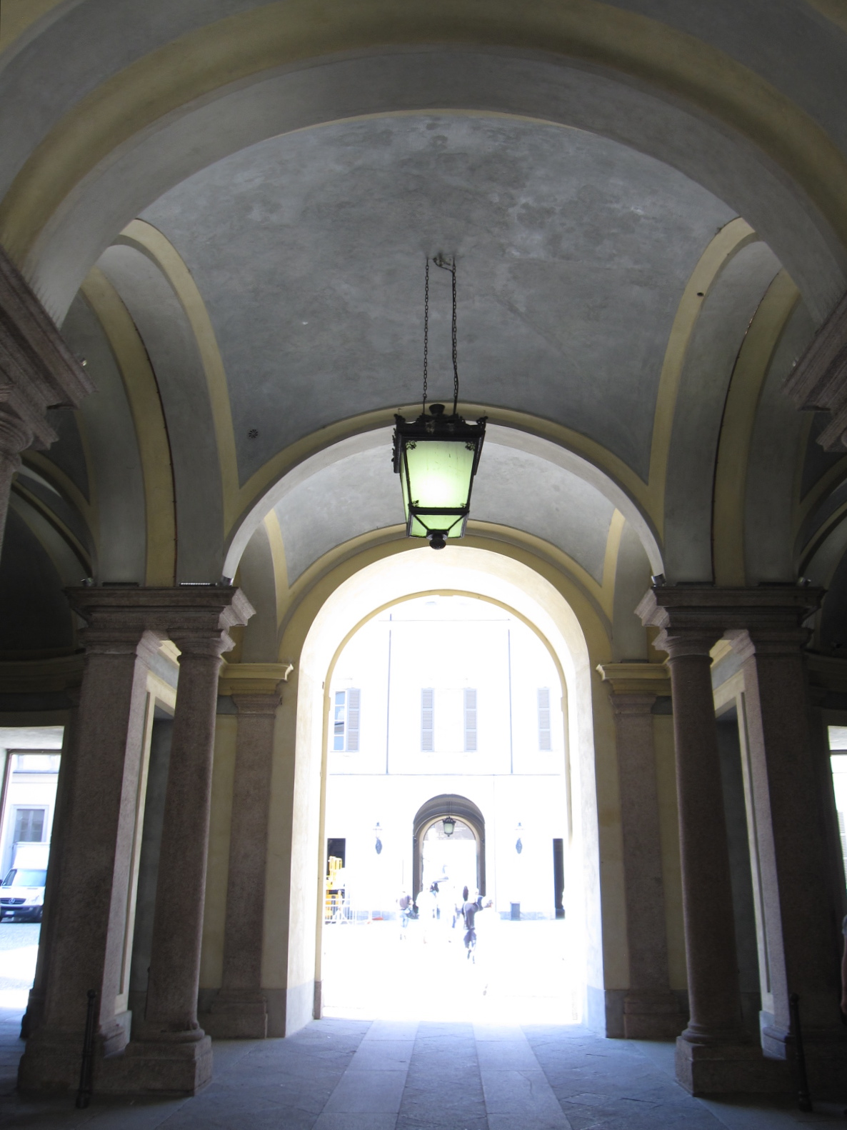 Royal Palace in Milan, Lombardia.